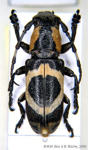 Callimetopus castus, female. Length = 17.2mm.; Collected by: M.M. Bos, canopy knockdown fogging. 29-XII-2003. Sampling campaign - December 2003-January 2004; idetified by Boris Bueche, 2006